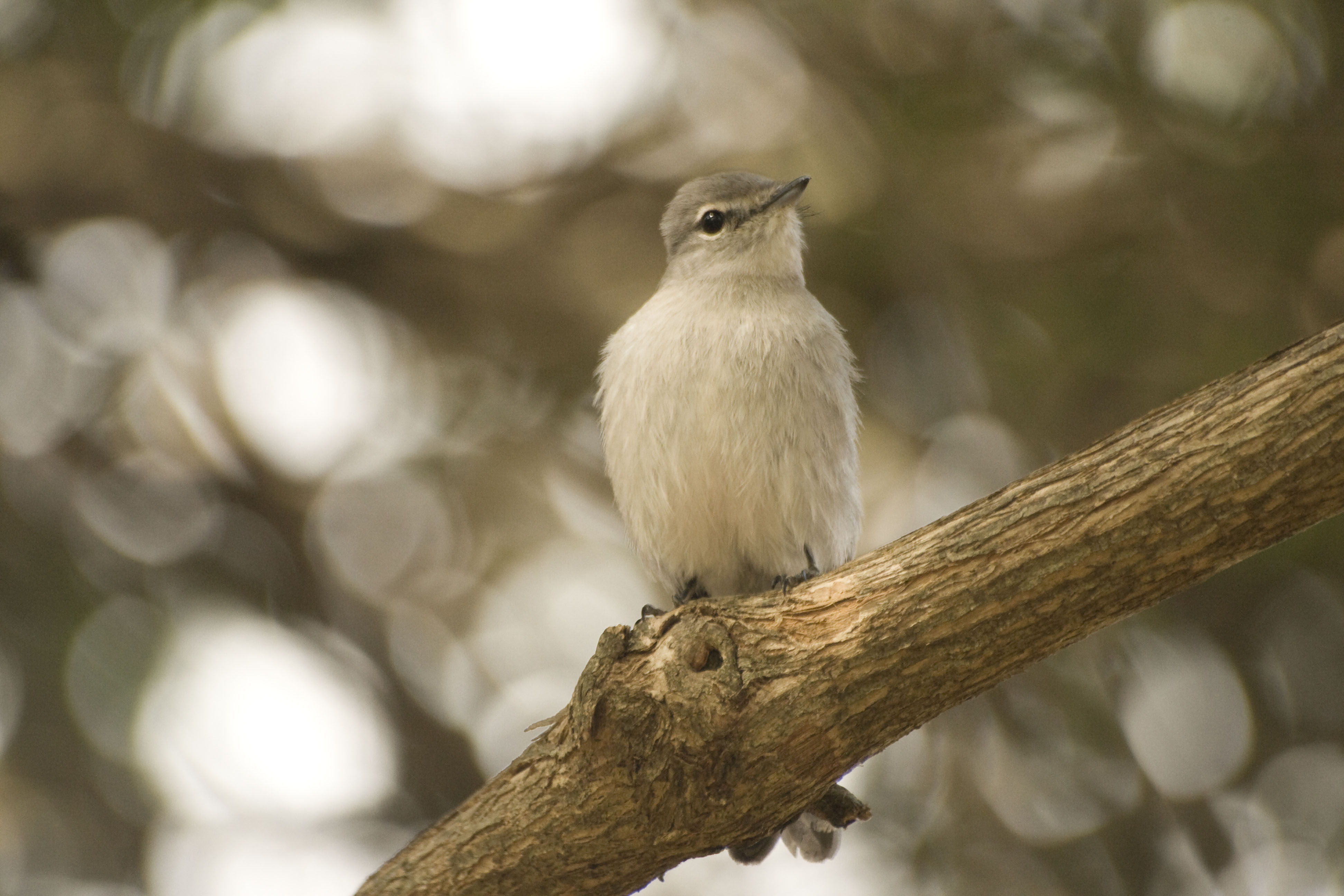 Ashy Flycatcher (Muscicapa caerulescens) at Punda Maria, Kruger National Park.